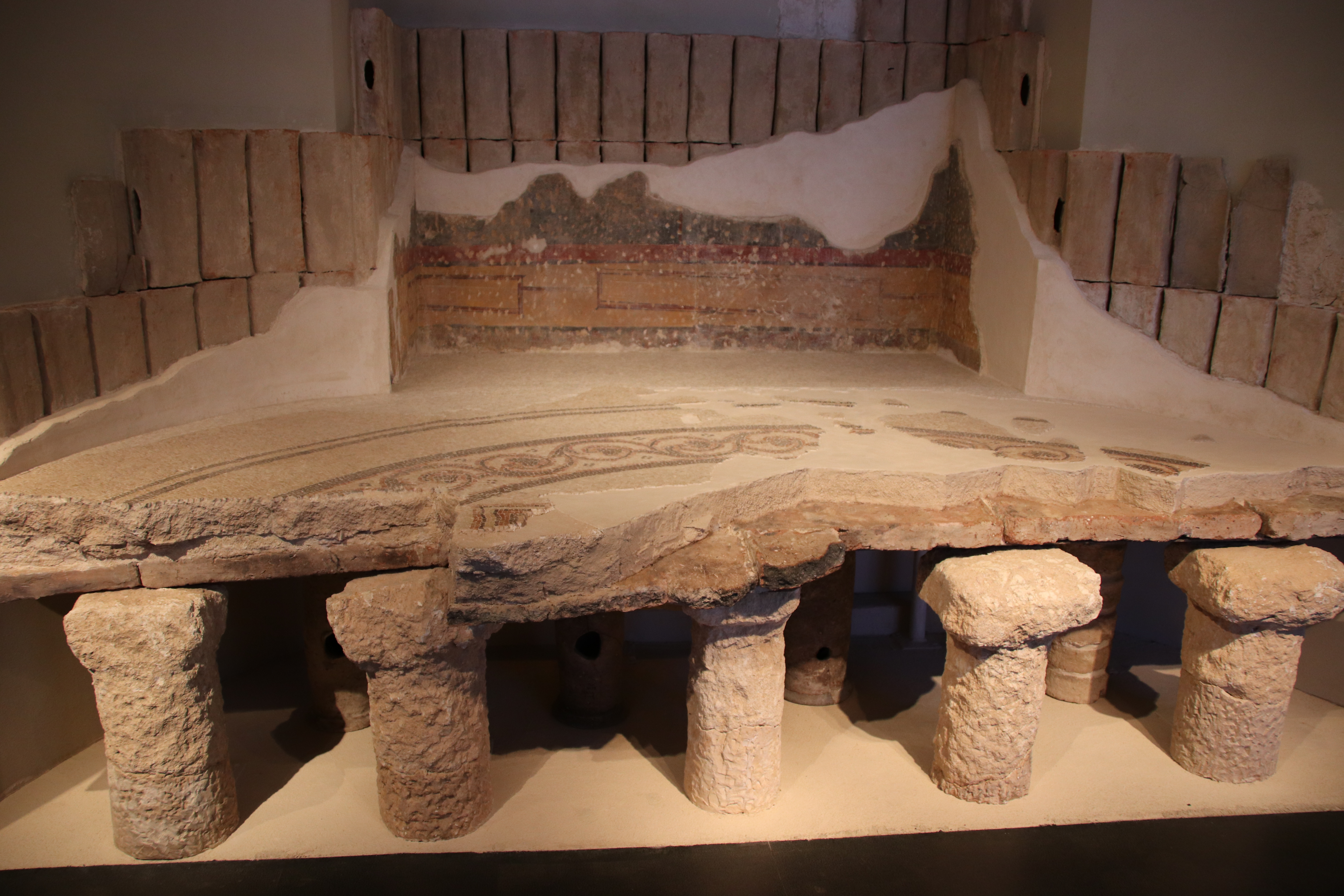 Israel Museum, Jerusalem, Israel. Complete indexed photo collection at